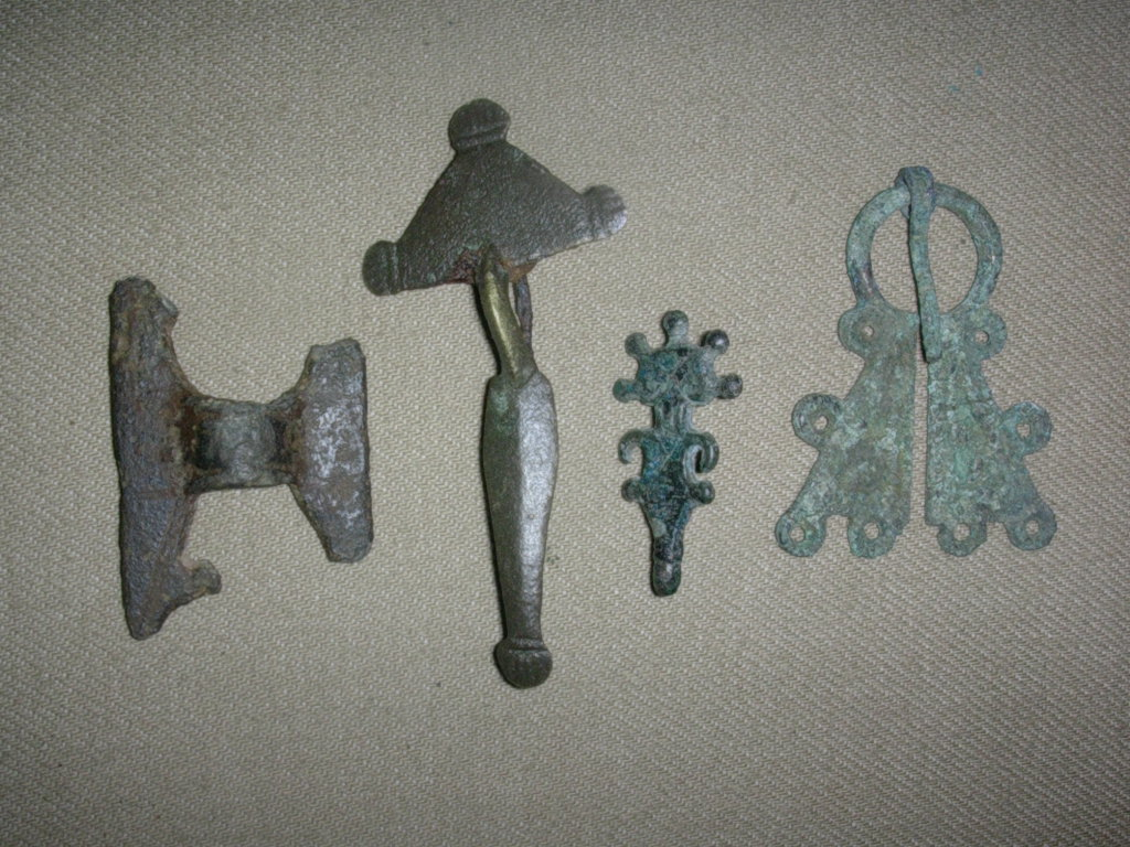 Post Roman Fibulae (Left to right.) Equal Arm Brooch. Anglo-Saxon. 5th c. CE. Early Radiate Head Bow Fibula. Ostrogothic. Early- to Mid-5th c. CE. Miniature Radiate Head Bow Fibula. Slavic/Avar/Gothic. Mid-6th - Early 7th c. CE. North Russian penannular brooch. Viking. 8th-10th c. CE.